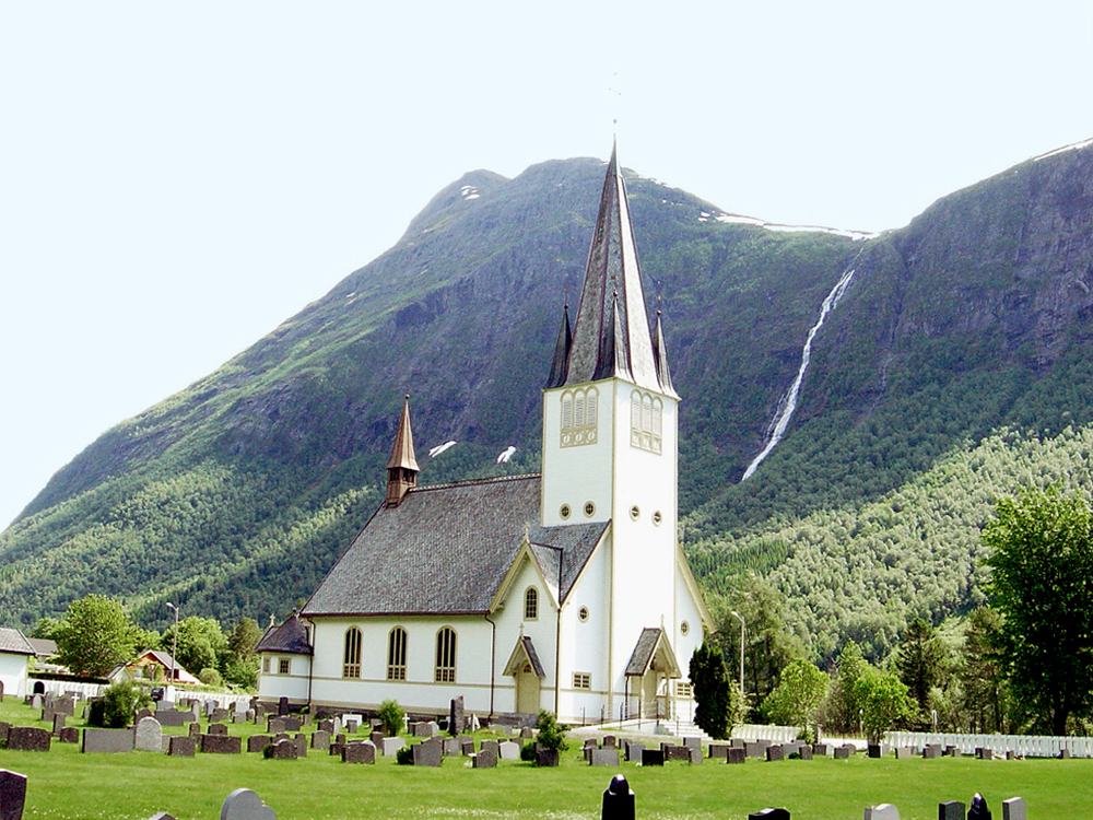 Stordal and the Stordal kirke